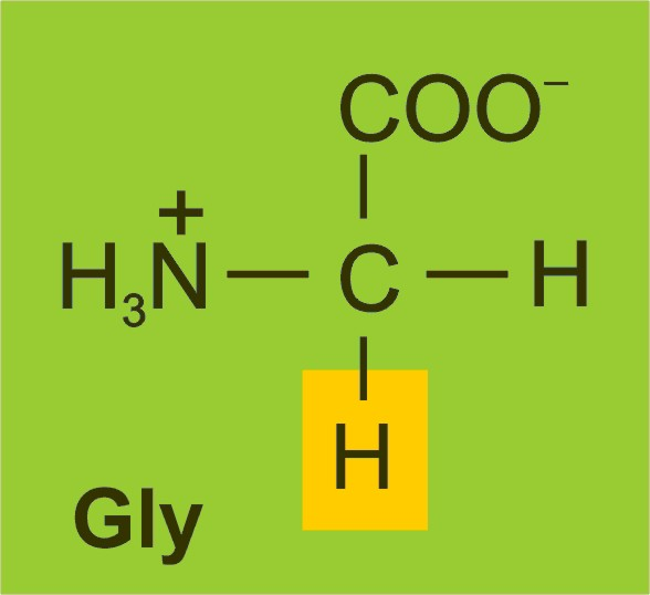 Gly amino acid formula jpg